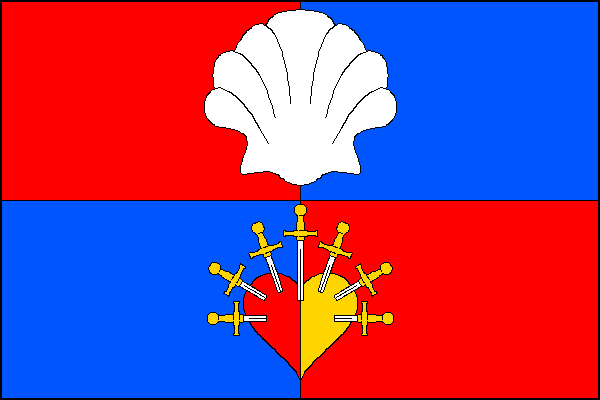 Municipal flag of Suchdol village, Prostějov District, Czech Republic.